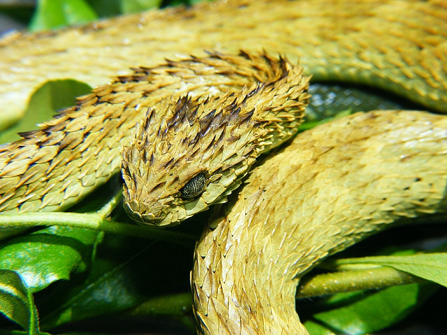 A Venomous African viper, photo taken 12 April, 2009